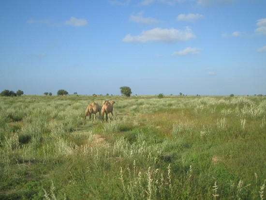 Camels in Djibouti